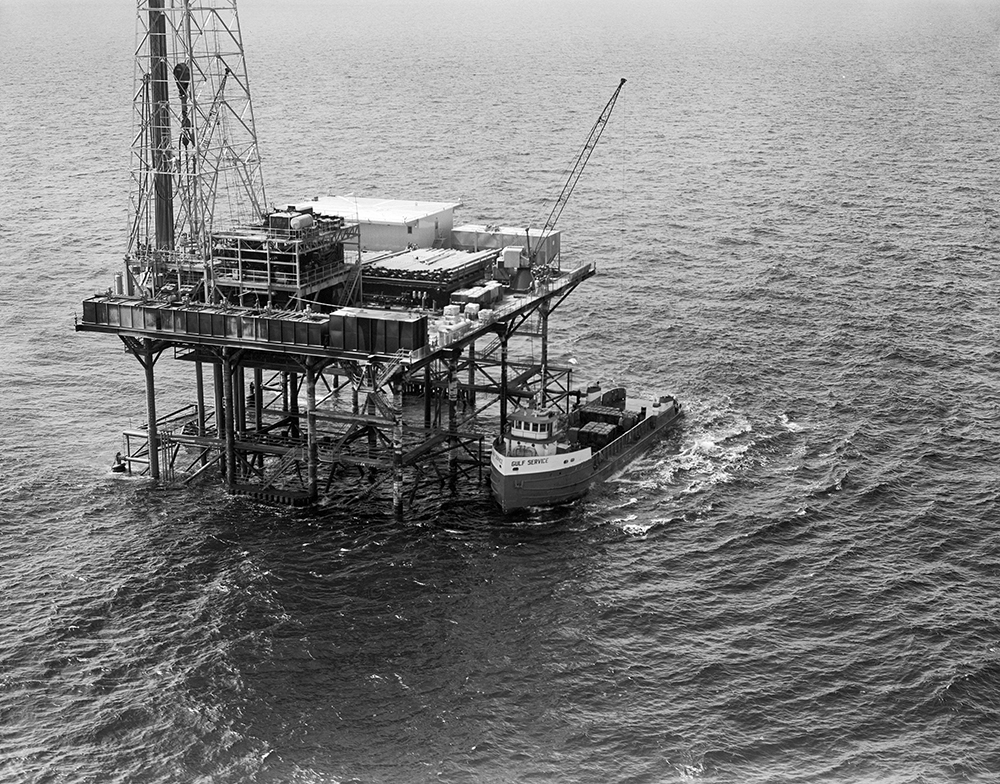 Title: Gulf Oil Corp., Gulf Service Boat & Fixed Platform Rig Creator: Richie, Robert Yarnall Date: July 15, 1956 Part Of: Robert Yarnall Richie Photograph Collection Place: Port Arthur, Texas Physical Description: 1 negative: film, black and white; 10.2 x 12.8 cm. File: ag1982_0234_4375_217_gulfoil_sm_opt.jpg Rights: Please cite DeGolyer Library, Southern Methodist University when using this file. A high-resolution version of this file may be obtained for a fee. For details see the web page. For other information, . For more information, View the Robert Yarnall Richie Photograph Collection